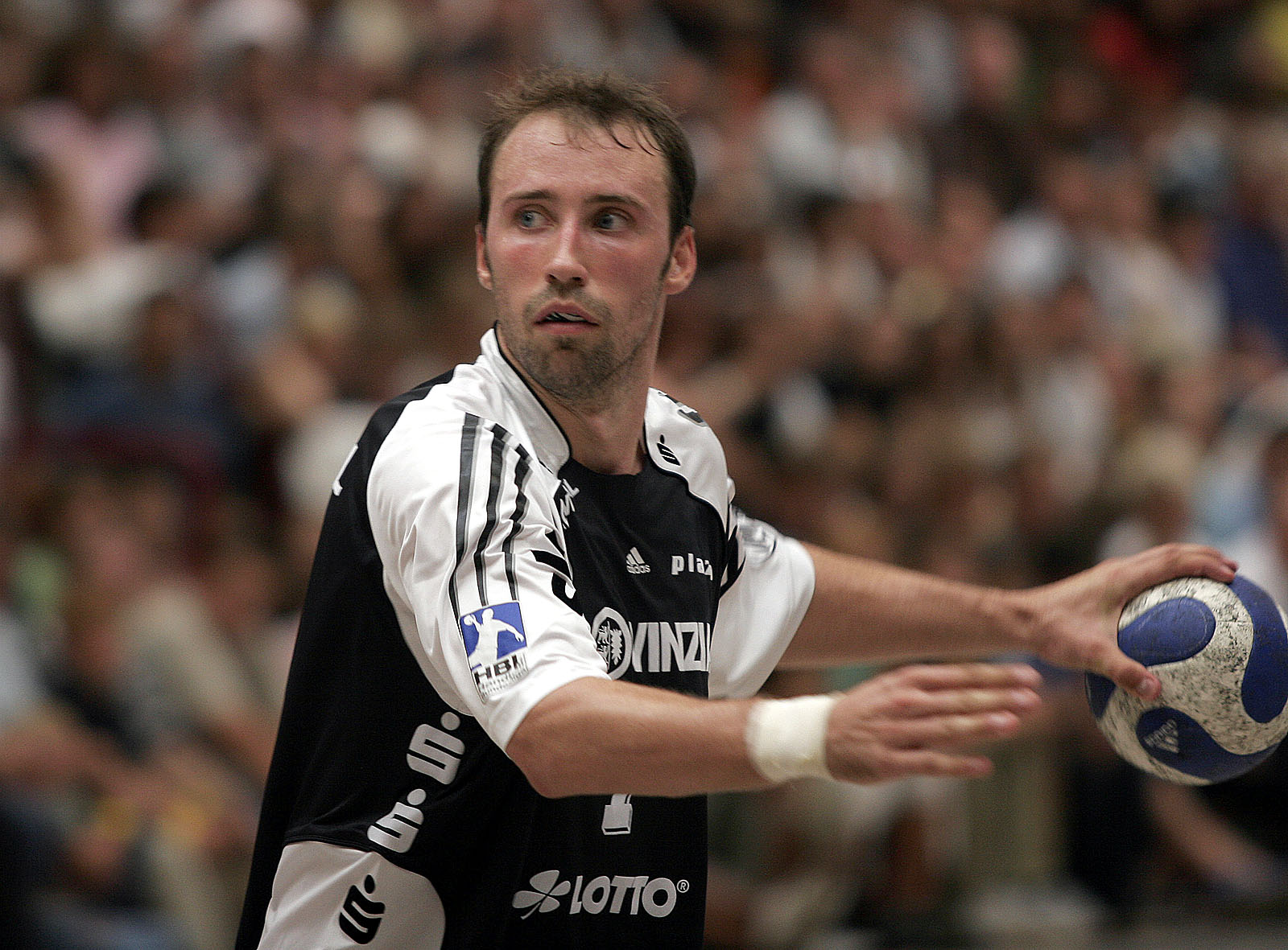 The Slowenian Handballplayer Vid Kavticnik (THW Kiel) during the Schlecker Cup 2007 in Ehingen (Germany)